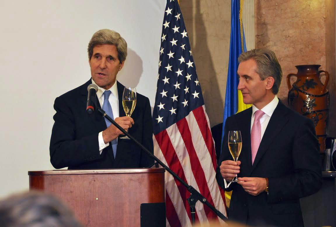 U.S. Secretary of State John Kerry and Moldovan Prime Minister Lurie Leanca toast to the U.S.-Moldova partnership and to 'a new spring of prosperity and opportunity' in Chisinau, Moldova, on December 4, 2013. [State Department photo/ Public Domain]